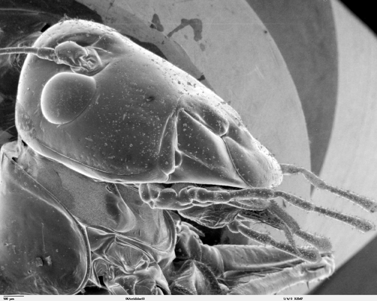 Head and mouthparts of grasshopper